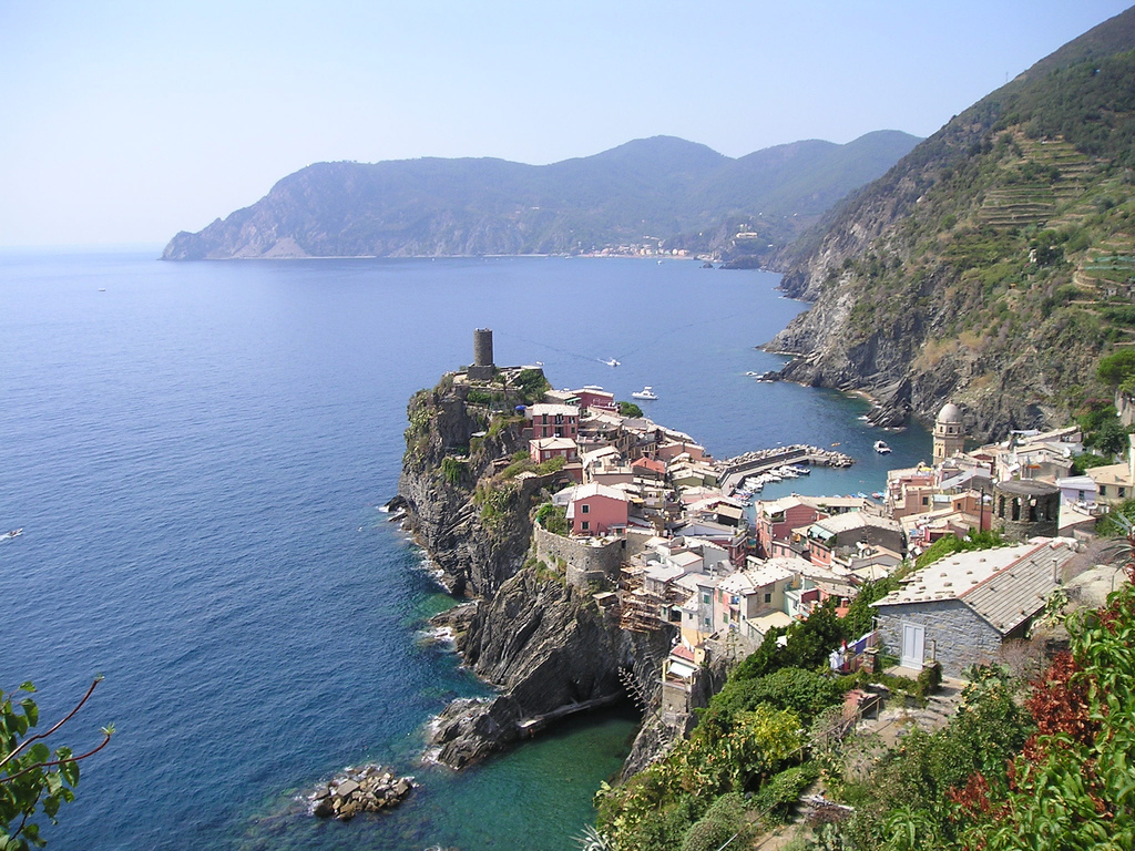 Blue sea, tall cliffs, town sitting atop rocky peak. Vernazza, a small town i northern Italy. Cinque Terre.